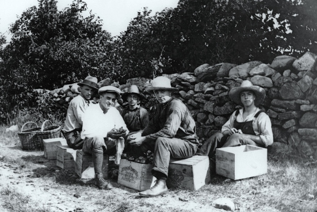 Photograph, Packing tomatoes for Bonsecours Market, Ile Bizard, QC, 1925, Robert Bruce Bennet, Silver salts on paper mounted on paper - Gelatin silver process - 6 x 10 cm